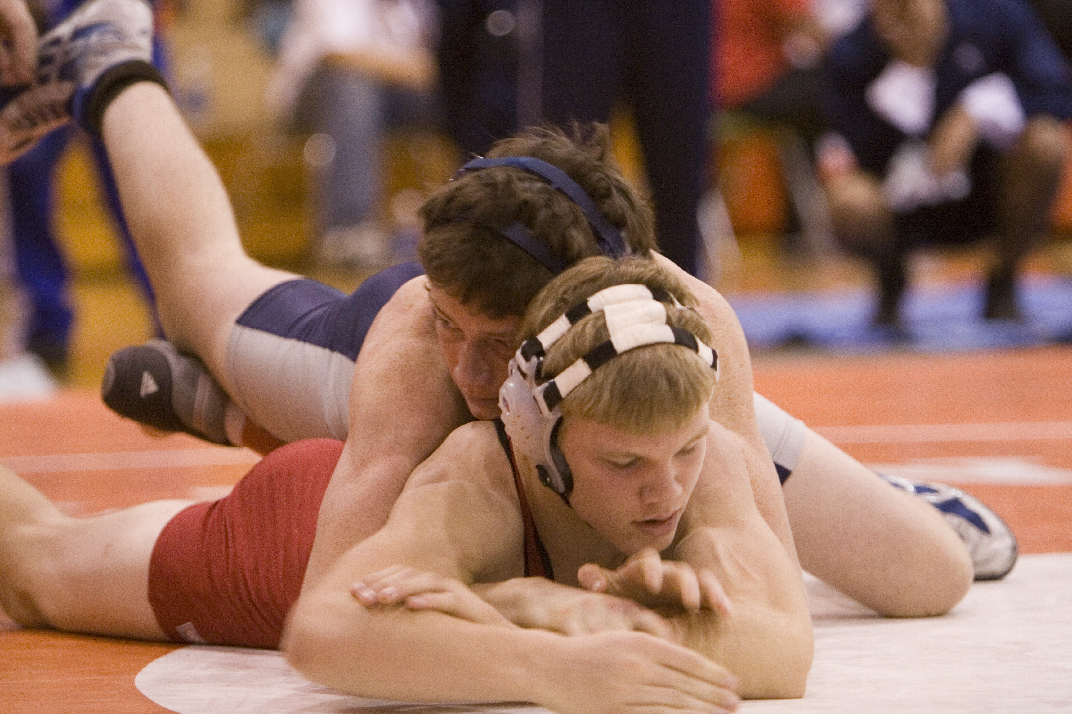 Two high school students wrestling (collegiate, scholastic, or folkstyle) in the United States. Originally uploaded by Wikiman86 on the English Wikipedia project at